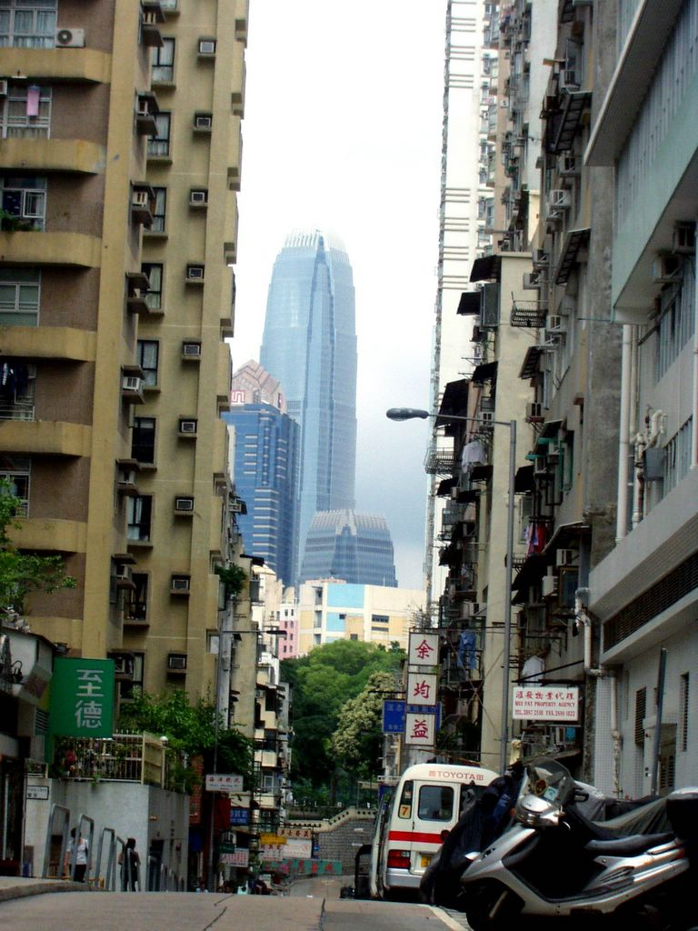 By Tsui Sing Yan Eric (rseric)